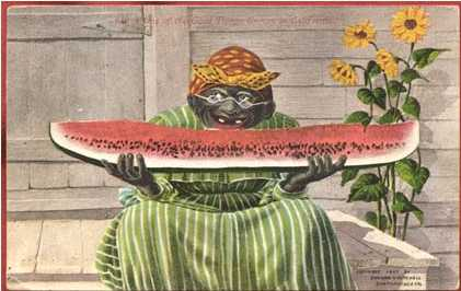 A postcard from 1900s depicting an unflattering caricature of a black woman eating watermelon.